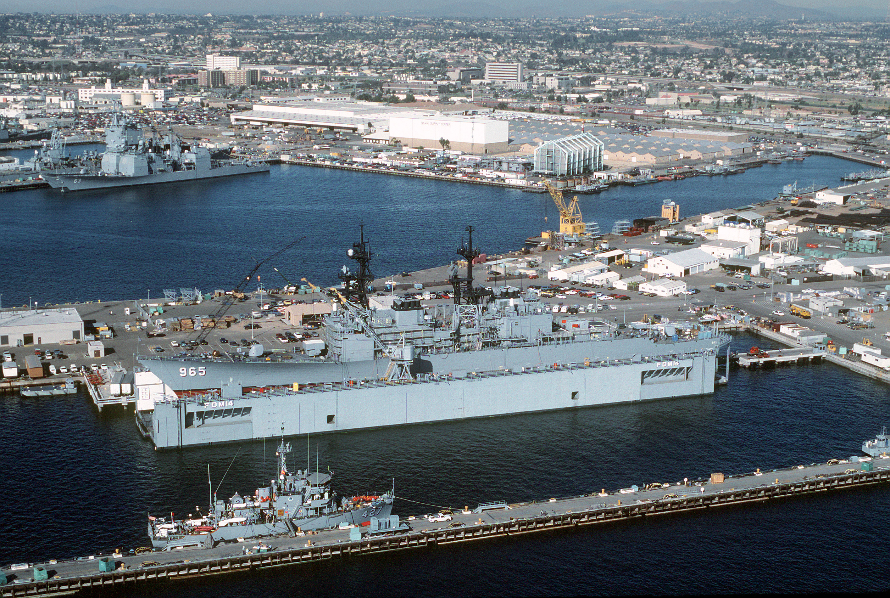 The destroyer USS KINKAID (DD-965) is positioned in the medium auxiliary floating dry dock STEADFAST (AFDM-14) at South Mole Pier. The ocean minesweeper USS CONSTANT (MSO-427) is moored in the foreground. Location: 32nd STREET NAVAL STATION, SAN DIEGO, CALIFORNIA (CA) UNITED STATES OF AMERICA (USA)